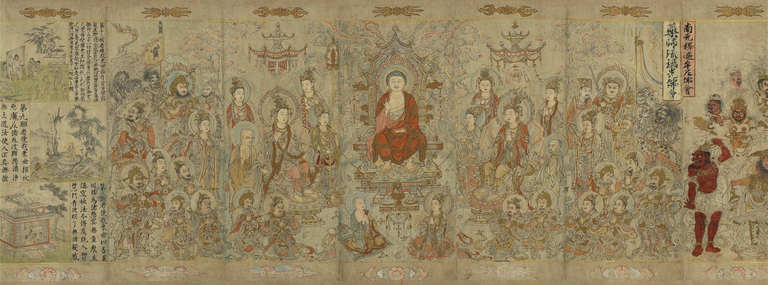 Zhang Shengwen (Chang Sheng-wen). The teaching of Buddha Sakyamuni.